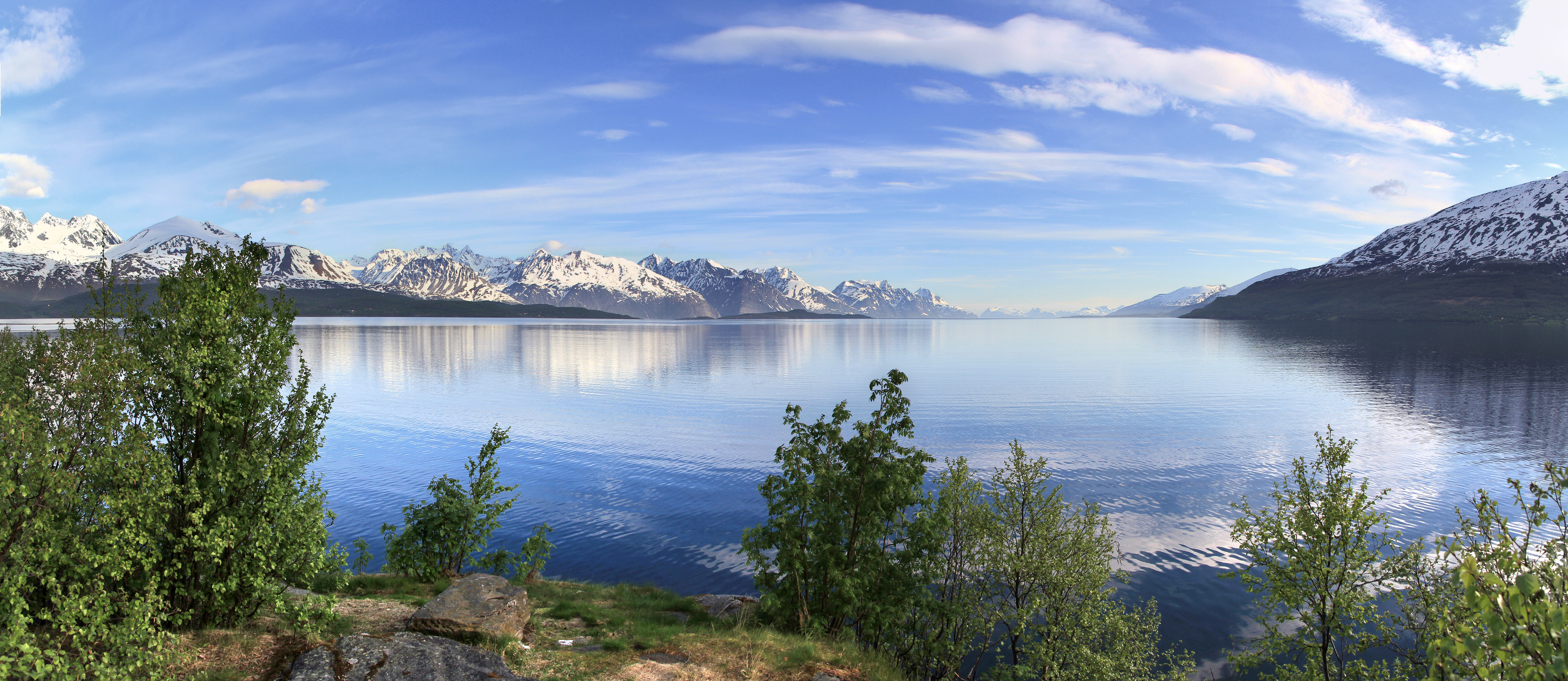 A view to Lyngenfjorden towards north from Nordneset at Kåfjorden in a morning in 2011 June.